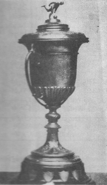 The trophy given to "Copa de Honor Cusenier" champion, donated by the Cusenier liquor factory. That championship was played between Argentine and Uruguayan teams and lasted from 1905 to 1920.